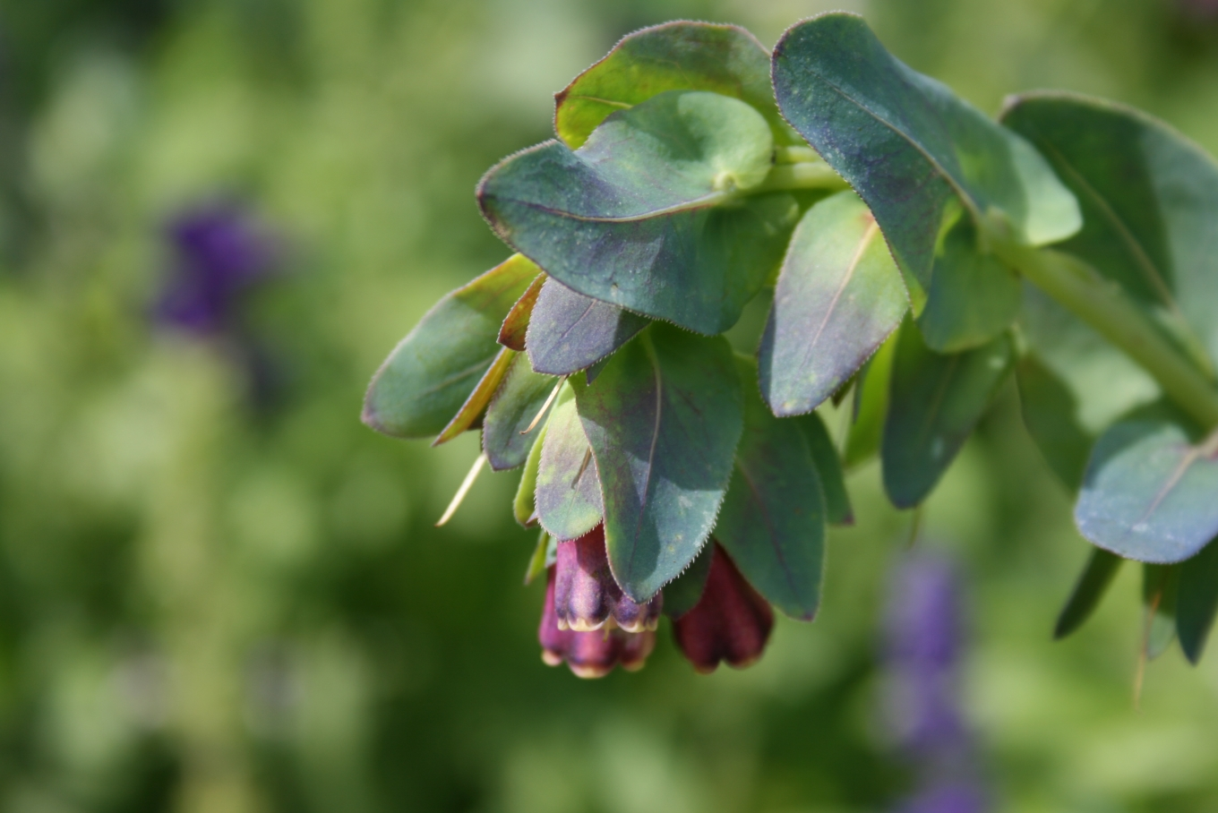 Cerinthe major - here the cultivar 'Purpurascens': Flowers.